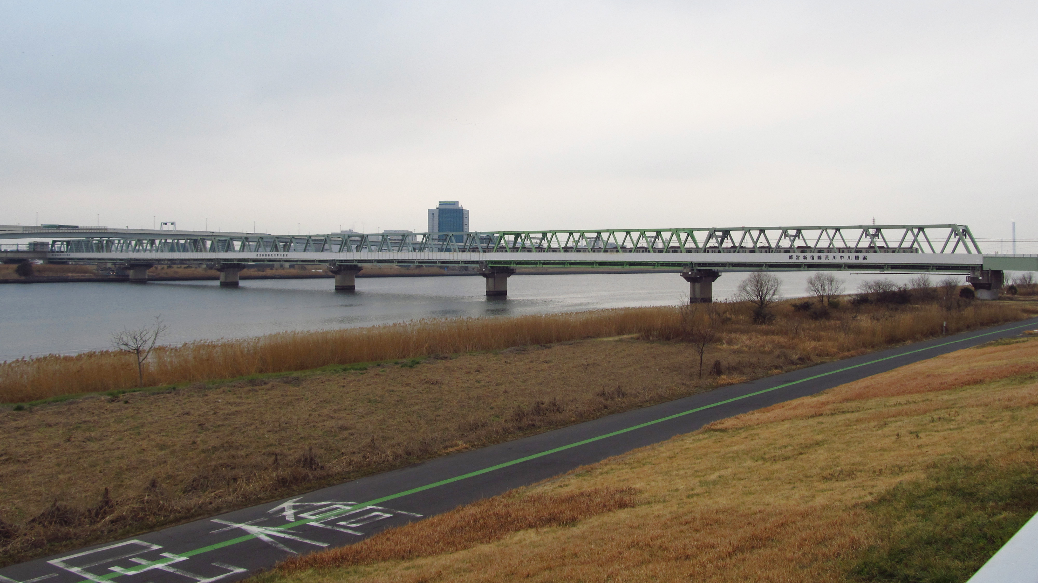 The Arakawa-Nakagawa Bridge on the Toei Shinjuku Line